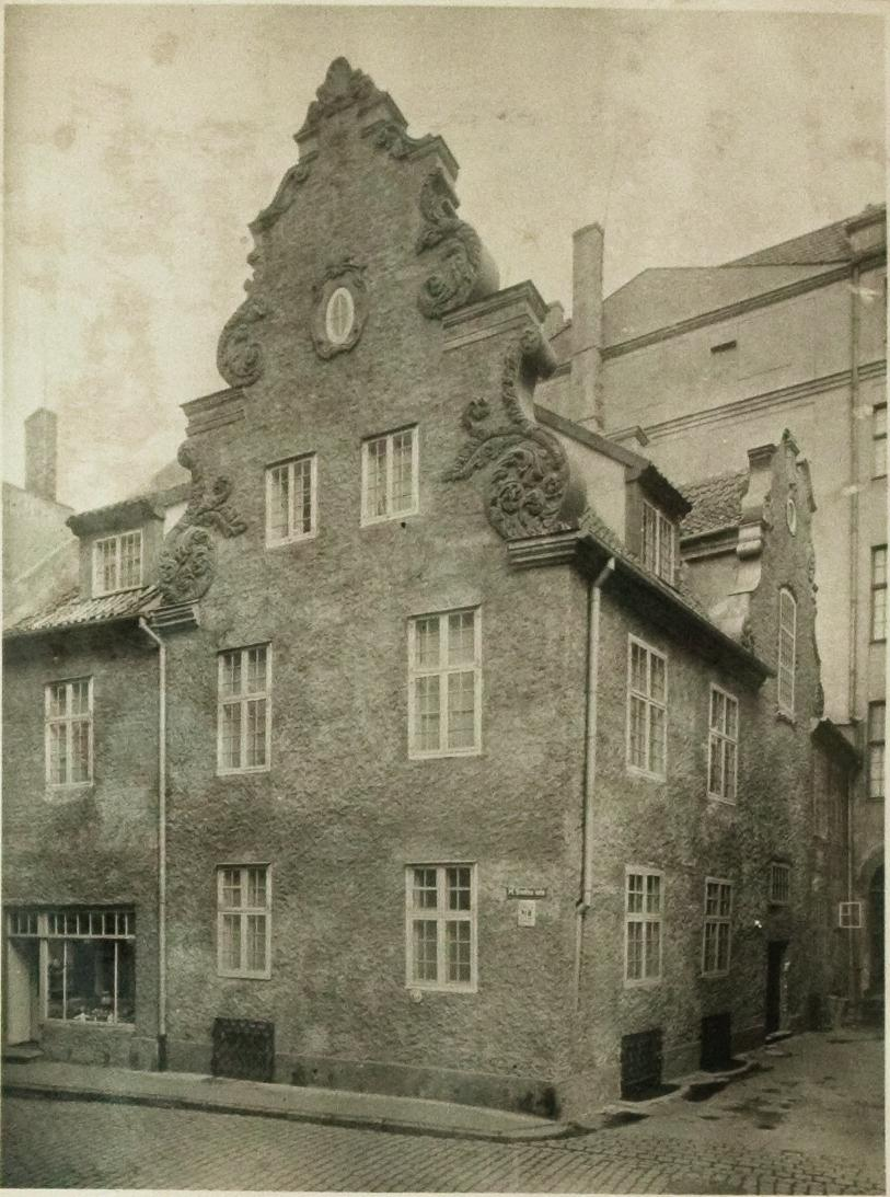 Building in Maza Smilsu iela, Riga, Latvia